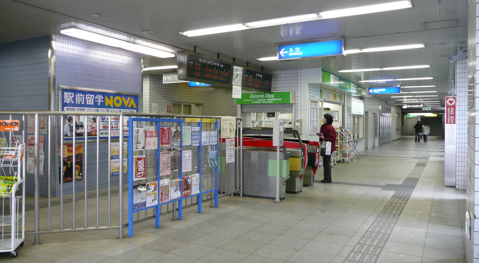 Kobe Electric Railway Flower Town Station ticket gate